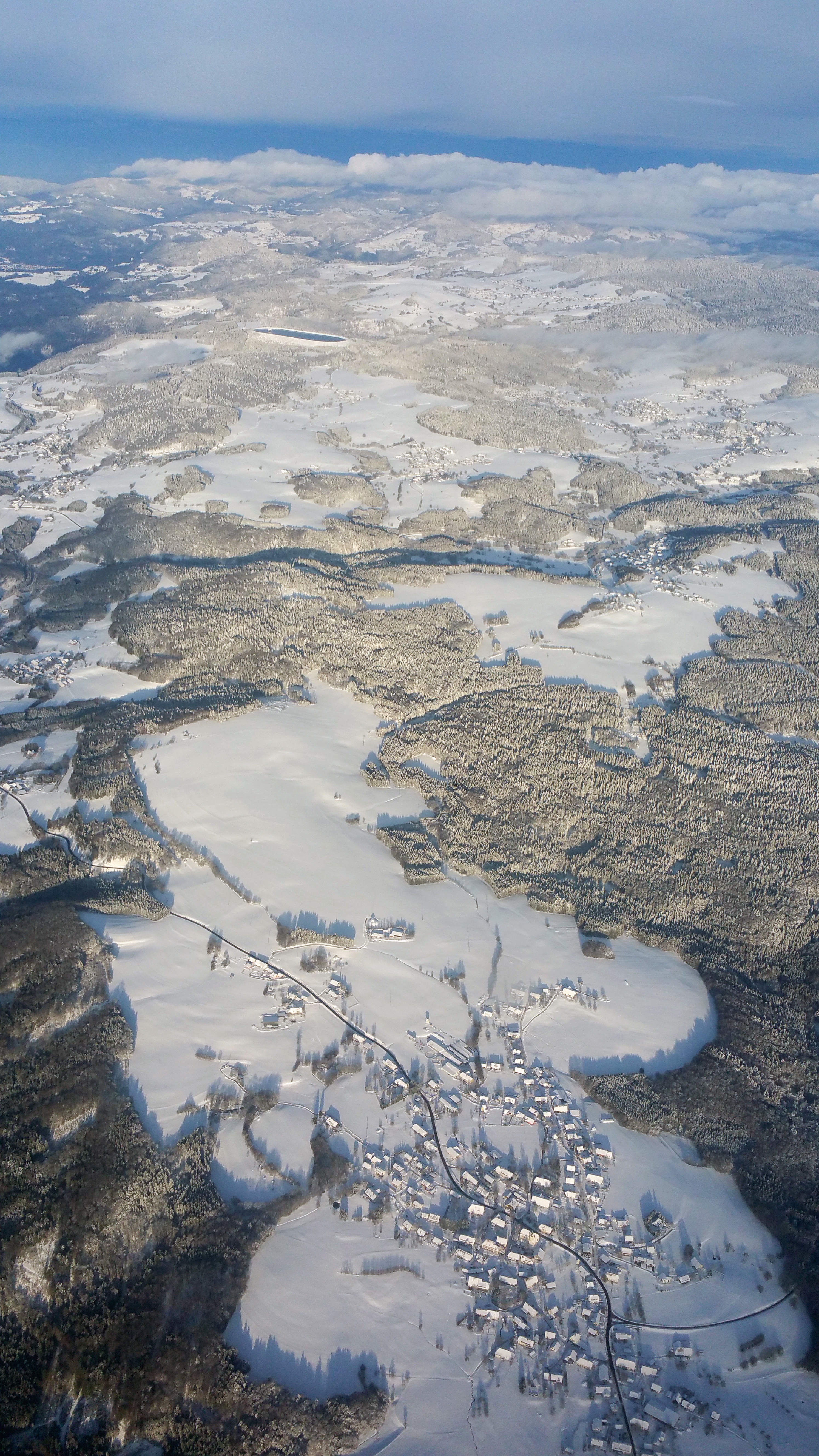 Germany, approach into ZRH across the Black Forest